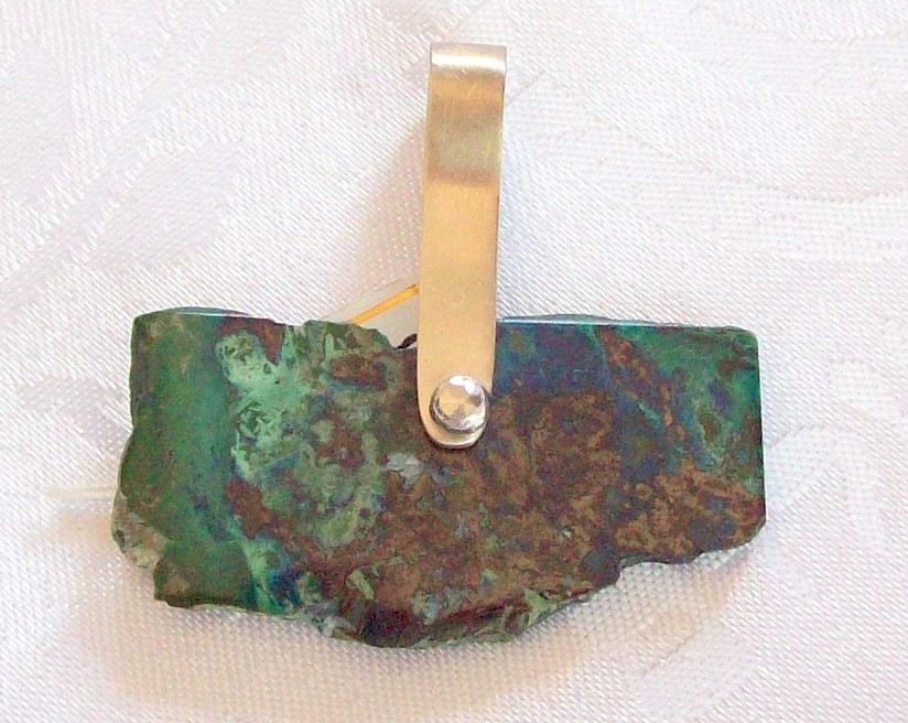 Wild-cut Eilat Stone in pendant